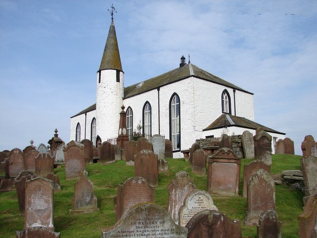 Crossmichael Church & graveyard Crossmichael Parish Church (1749-51) with its centrally sited round tower and C19 conical roof paired with Balmaghie (opposite side of Loch Ken). The Churchyard has an fine enriched Gordon monument (1757), a Covenanter’s gravestone and three war graves. A table stone has an acrostic epitaph to Rev Andrew Dick.